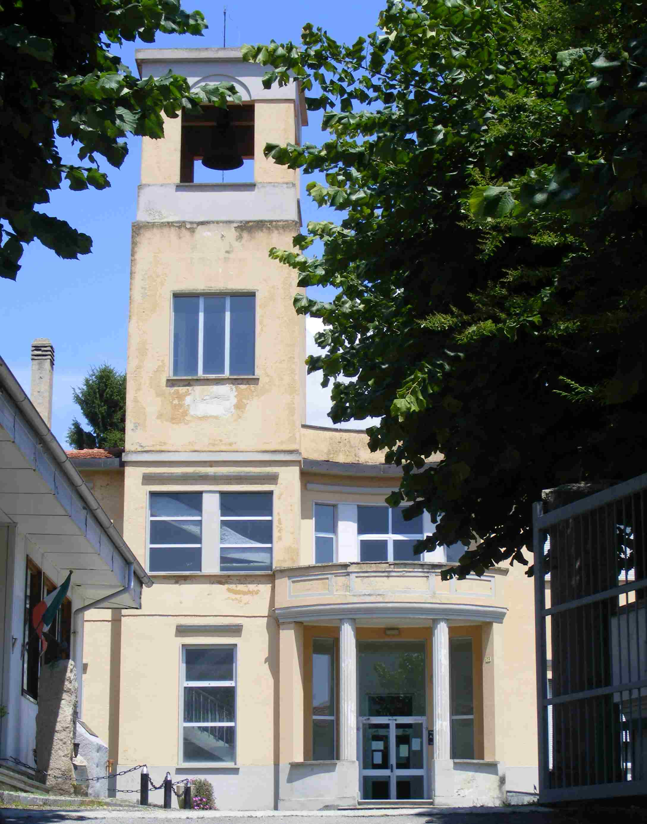 Forno Canavese (TO, Italy): Casa del Fascio (former Italian Fascit party headquarters) vhere on Decembrer 9th 1943 18 partisans were executet by a nazi-fascist firing squad